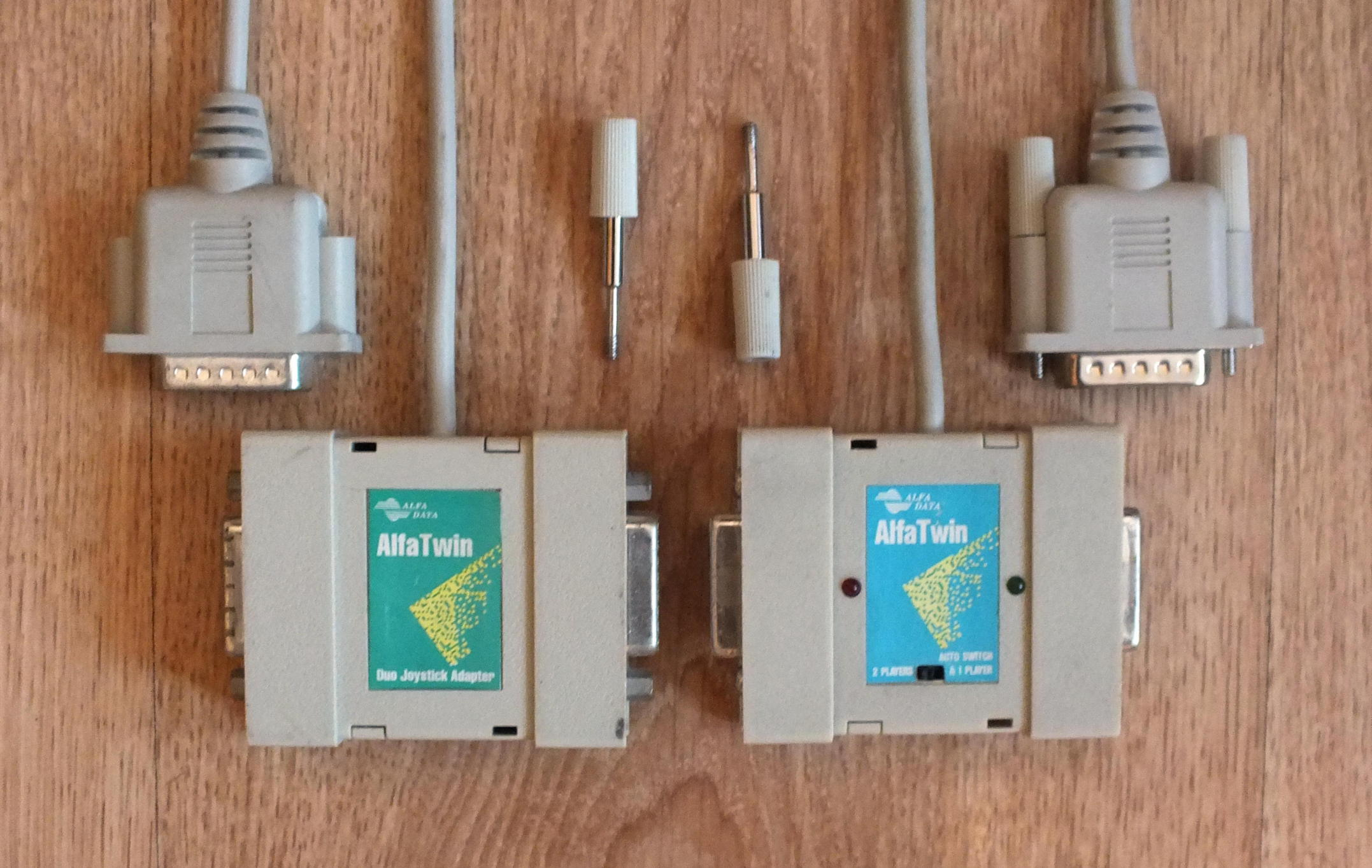 AlfaTwin